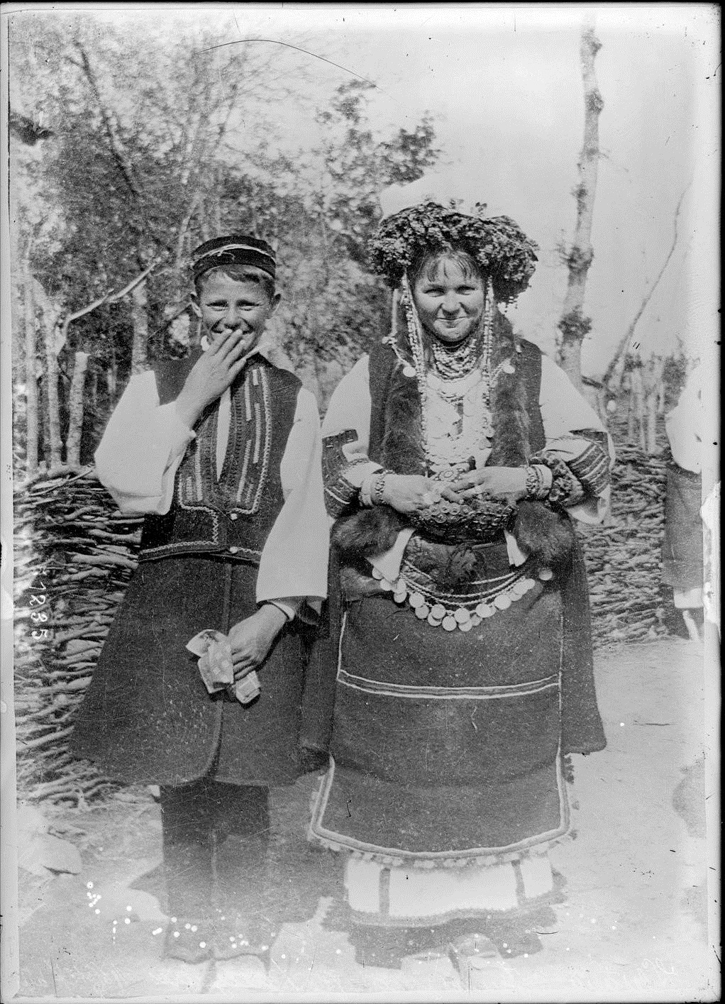 Kleshtino Couple in WWI